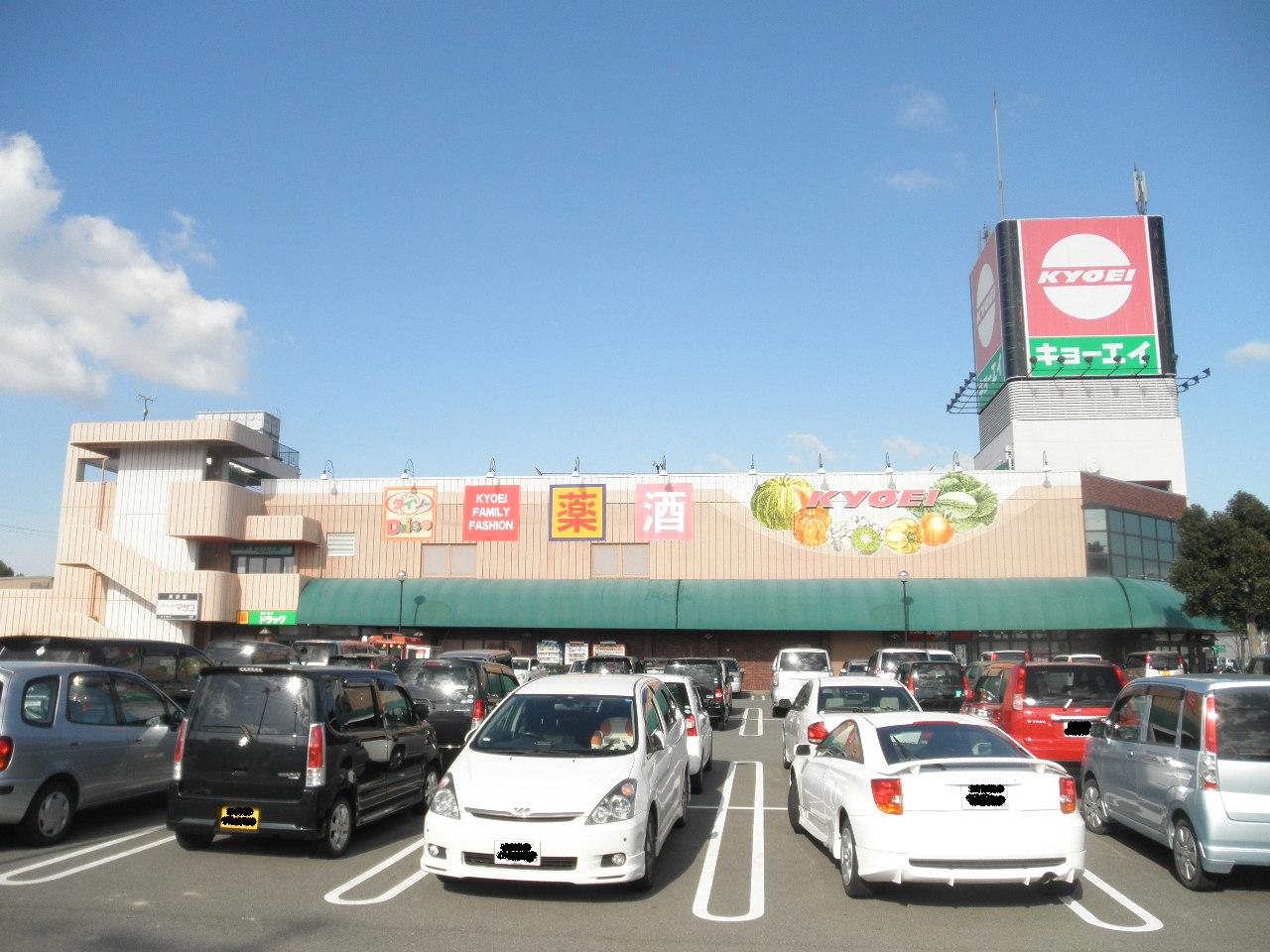 Komatsushima SATY Ruins